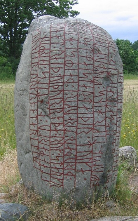 The Karlevi runestone in Vickleby Parish, Mörbylånga Municipality, Öland, Sweden.